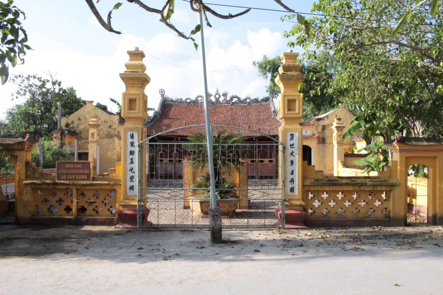 Luong The Vinh Temple in Vu Ban district, Nam Dinh Province, Vietnam